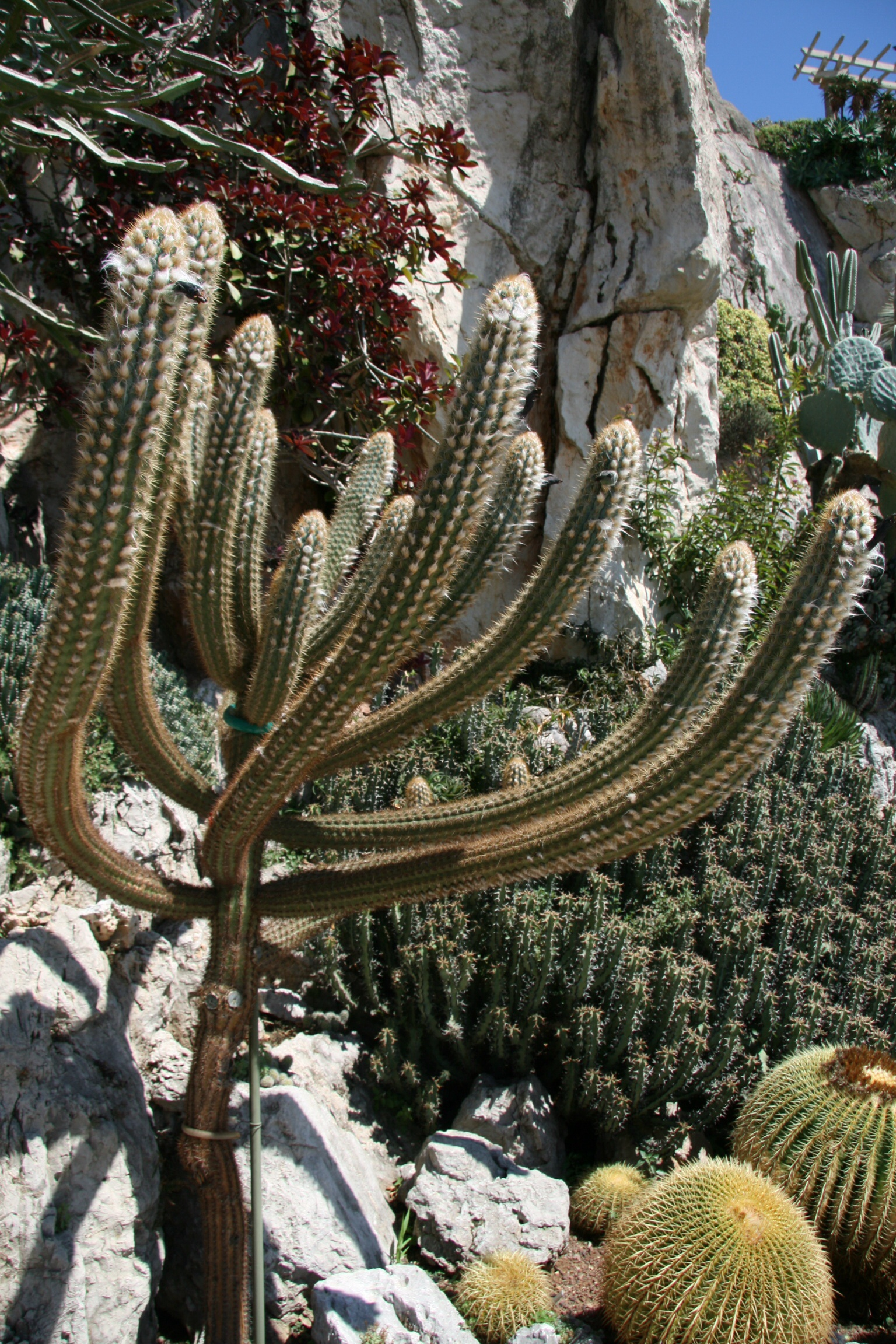 Jardin Exotique, Monaco 2014